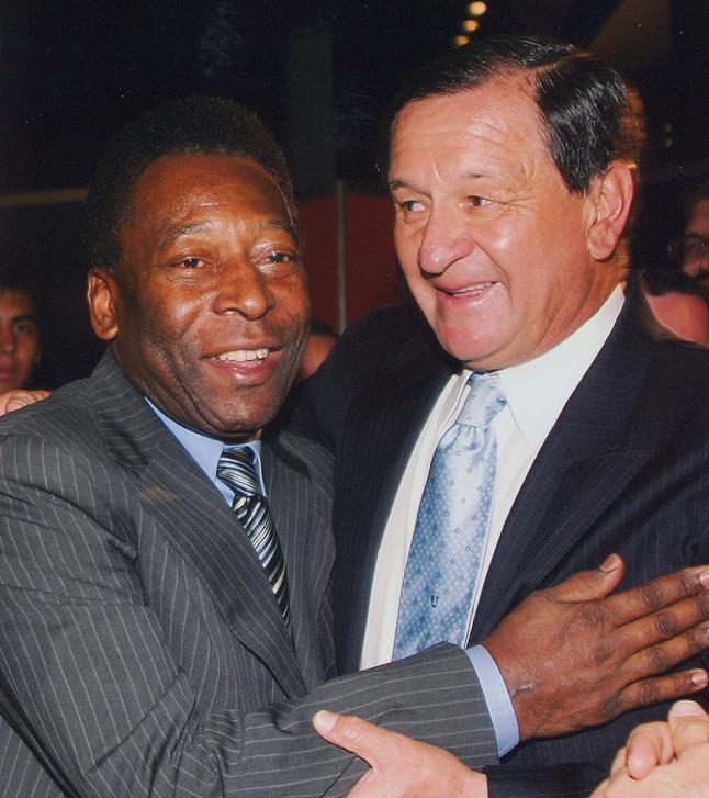 Enrique Meza with Edison "Edson" Arantes do Nascimento commonly known as Pele.